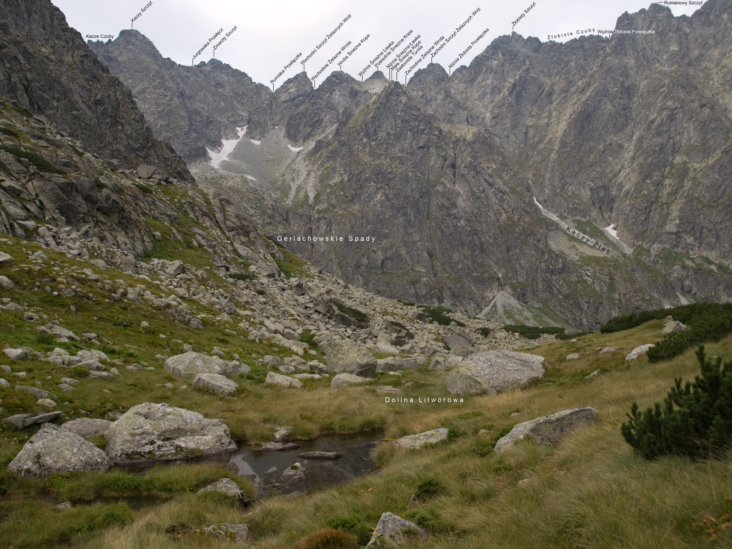 The ridge above Kačacia dolina (Kačací štít, Popradský Ľadový štít, Železná brána, Zlobivá, Rumanov štít) with polish names of peaks and saddles.